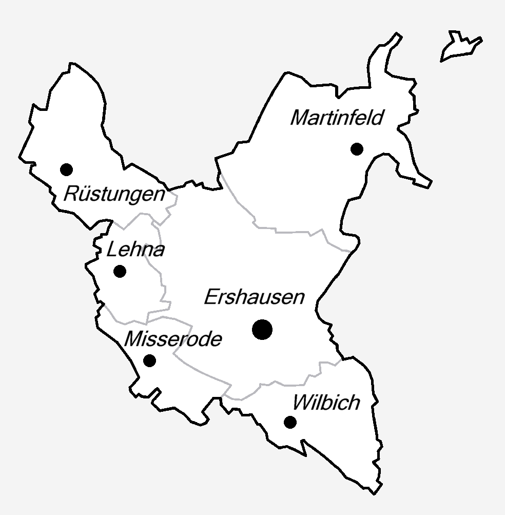 District-Maps of Schimberg.